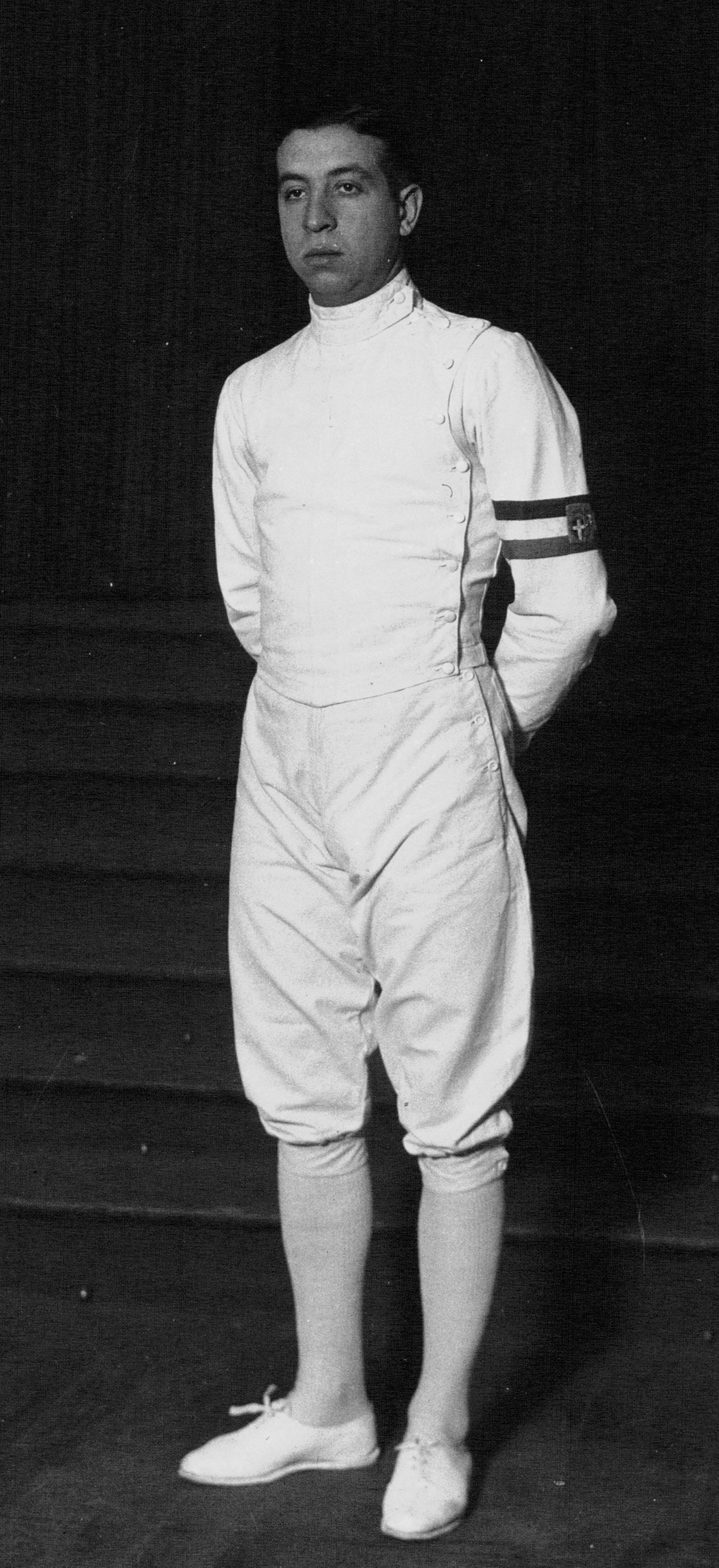 Picture of Gustavo Marzi